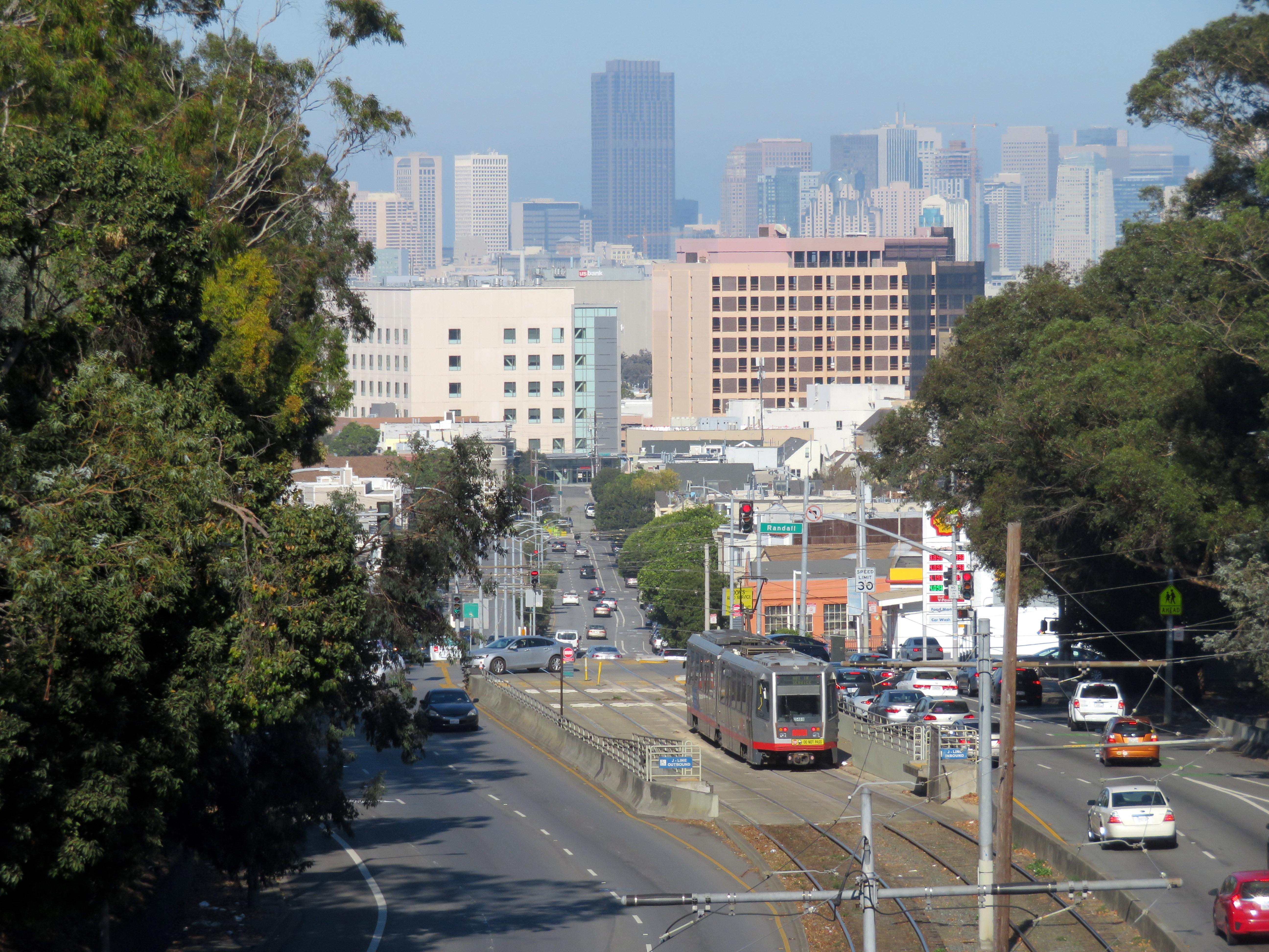 An inbound train at San Jose and Randall station in November 2019